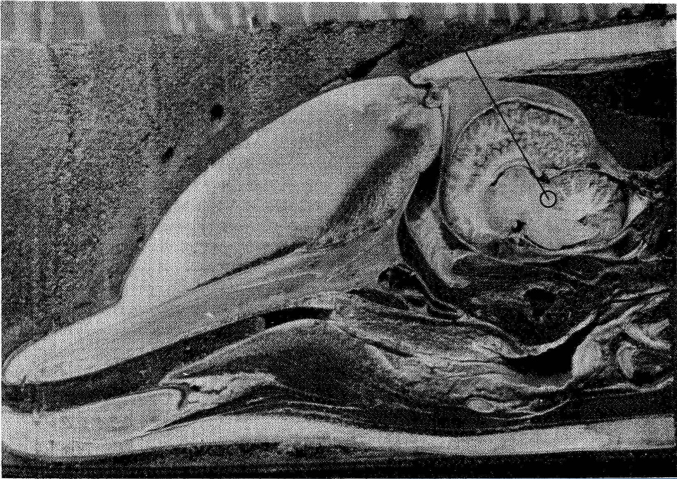 A sagittal bisection of the head of a bottlenose dolphin (Tursiops truncatus).